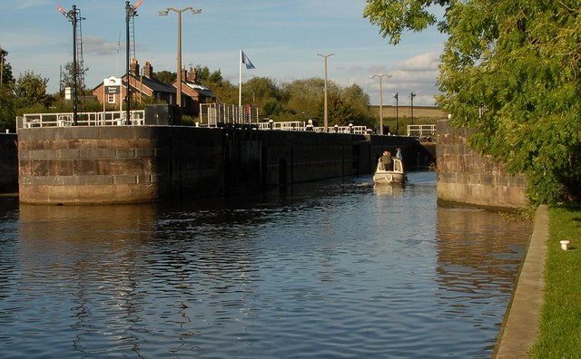 Dutton Locks Pleasure cruiser leaving Dutton Locks